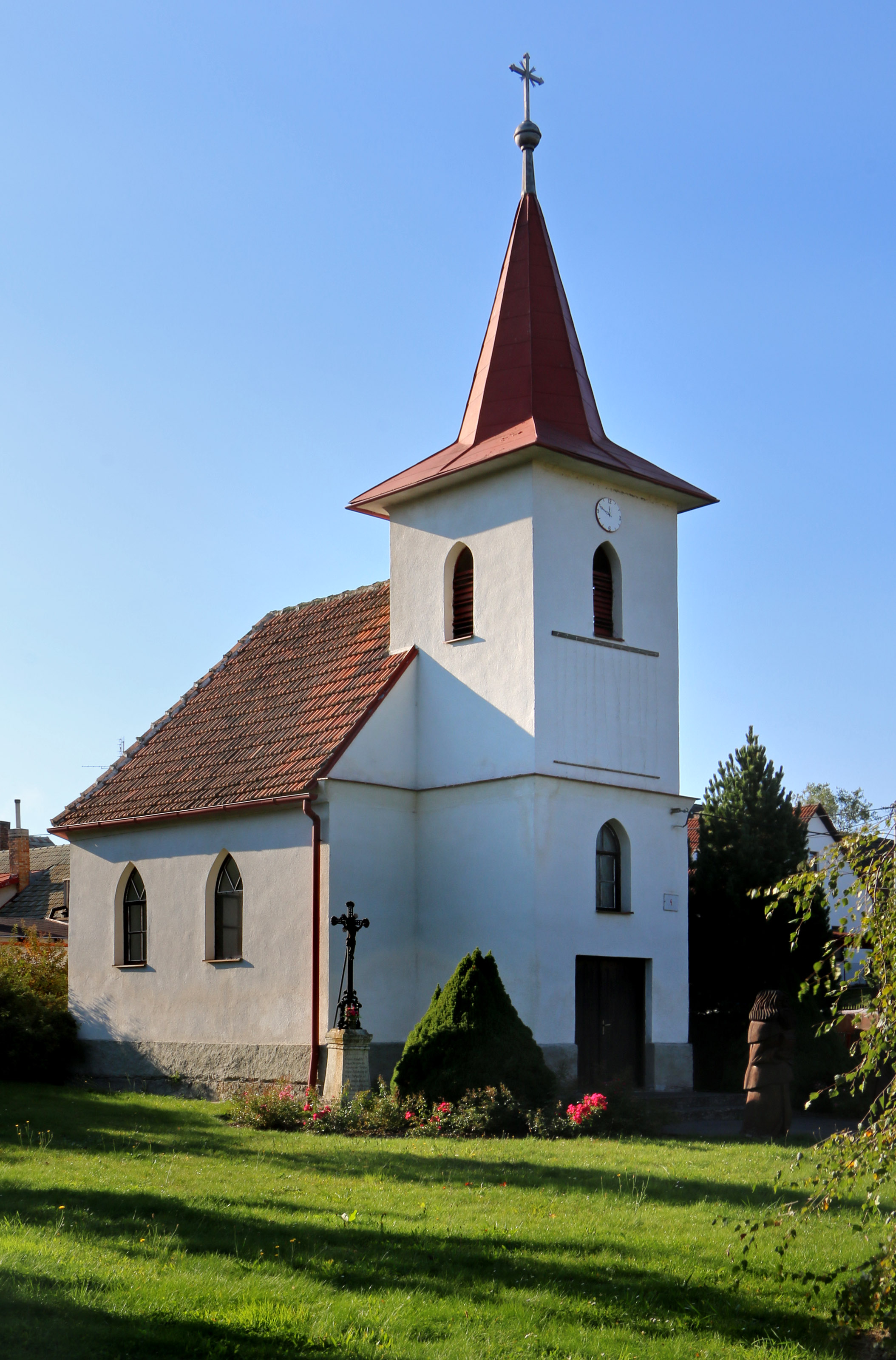 Chapel in Švábov, Czech Republic.